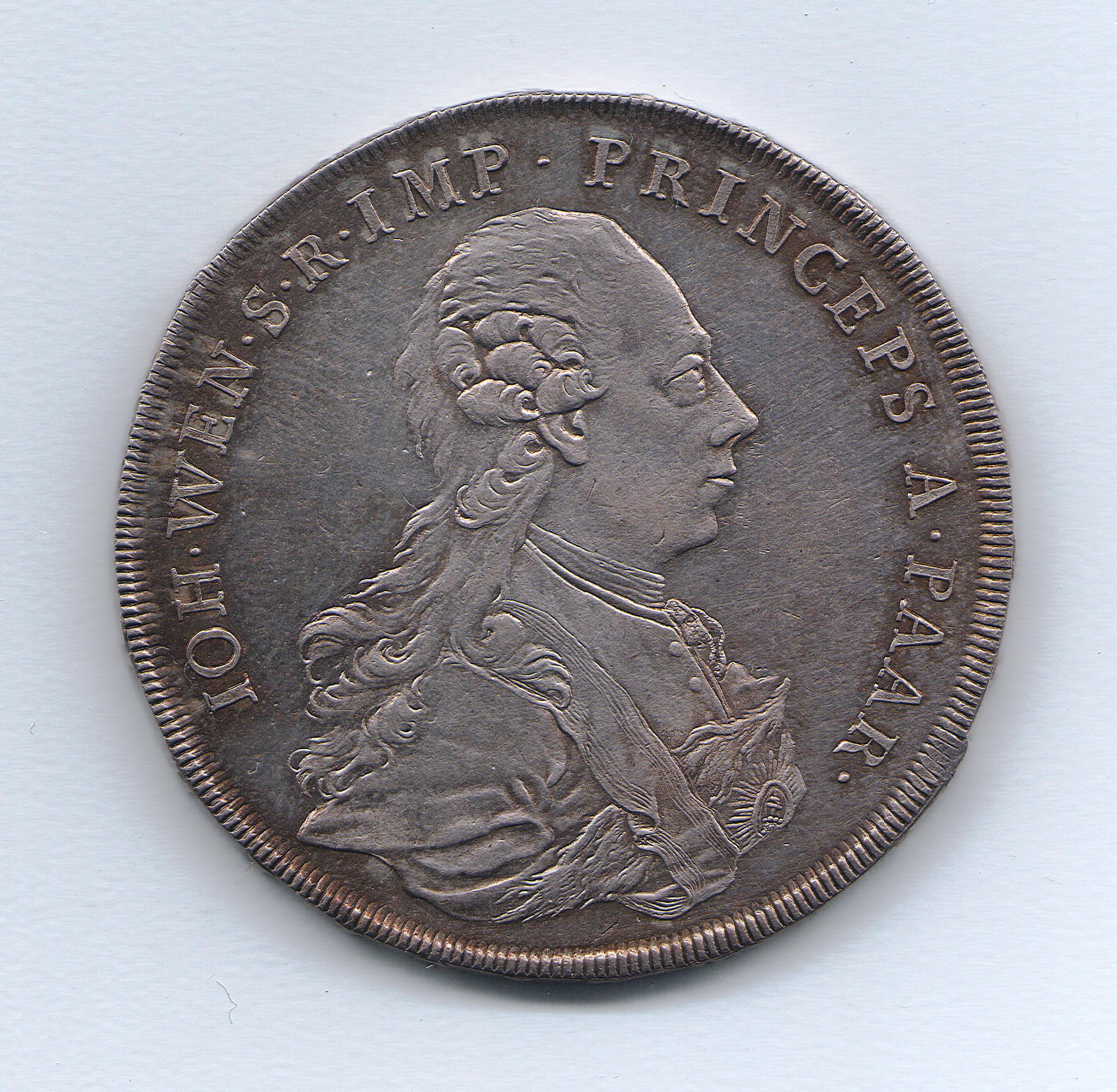 John Wenceslaus Prince Paar Thaler 1771 obverse